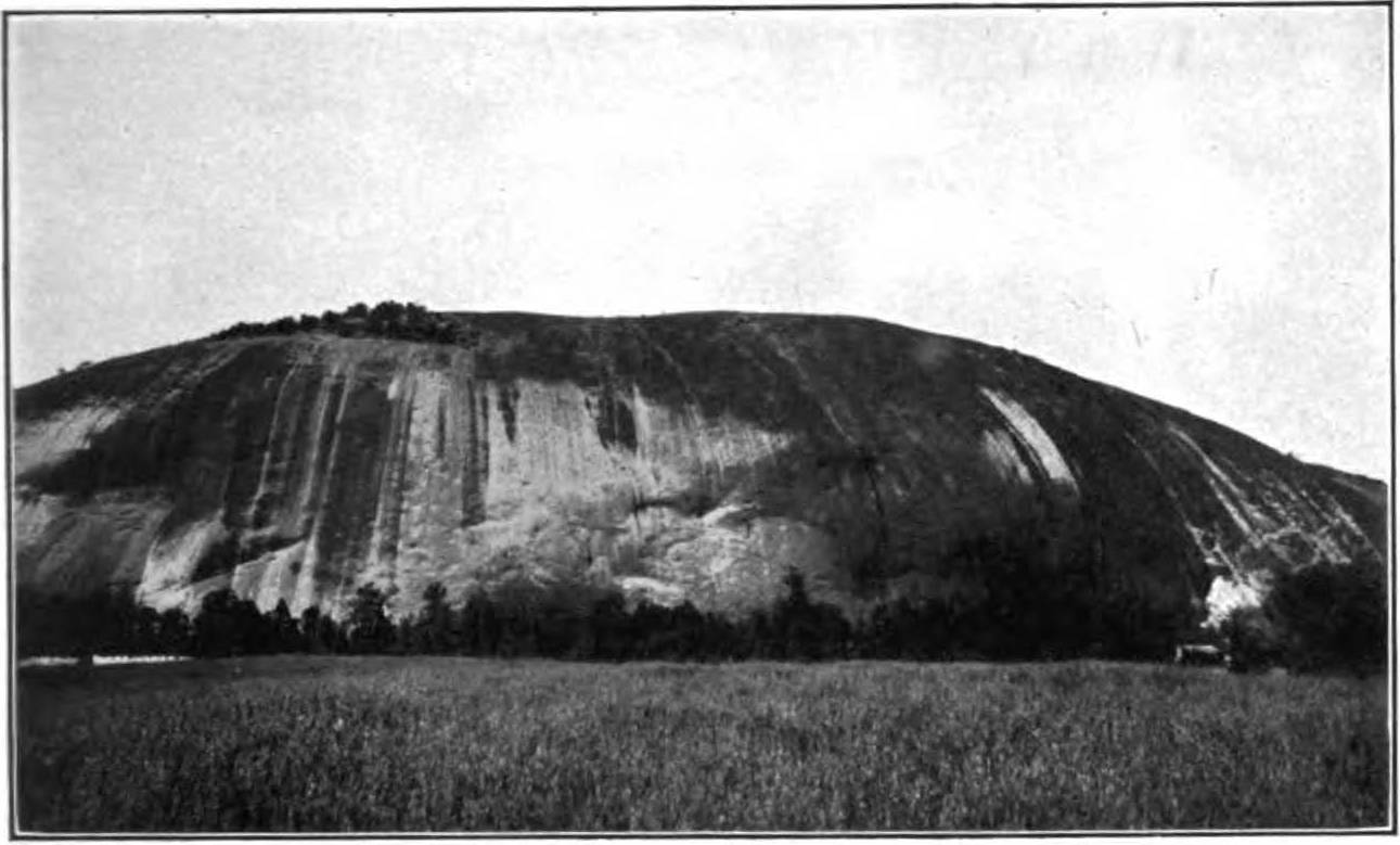 Plate XXV A, Original caption: "Stone Mountain, a granite dome, DeKalb County, GA." This was published in 1910, prior to the construction of the Confederate Memorial. Text from the volume referring to this figure: Stone Mountain, which is a huge doming ridge of granite (Pl. XXV, A), is situated about 16 miles east of Atlanta in DeKalb County. It is an elliptical boss, with its longer axis trending northeast and southwest and its steepest side facing northward. It rises 686 feet above the adjacent lowland plain of crystalline rocks, and measures 7 miles in circumference around its base. The present ridge is the unreduced remnant of a much larger granite mass. The evidence favoring this conclusion is the fact that a belt of the same granite reduced to the general level of the surrounding Tertiary Piedmont plain skirts the north, west, and south sides of the ridge with a width varying from a quarter of a mile to more than a mile. The granite of Stone Mountain and the granite gneiss of the adjacent Lithonia area in the same county have had the widest distribution and are the best known of the Georgia granites outside of the State. From the time of their first opening, prior to the civil war, to within the last few years the quarrying of stone in these two areas formed practically the whole granite industry in Georgia. These are the largest granite quarries in Georgia and they yield a much larger output than any other areas in the State. Numerous quarries yielding an excellent light-gray granite are worked along the western and southern flanks of the ridge. (See Pl. XXV, B.) The stone has been used most extensively for general building purposes, and almost as largely for street material in the form of blocks and curbing. Its very light color makes it undesirable for monument stock. It has been marketed in the principal towns and cities in the South and West.